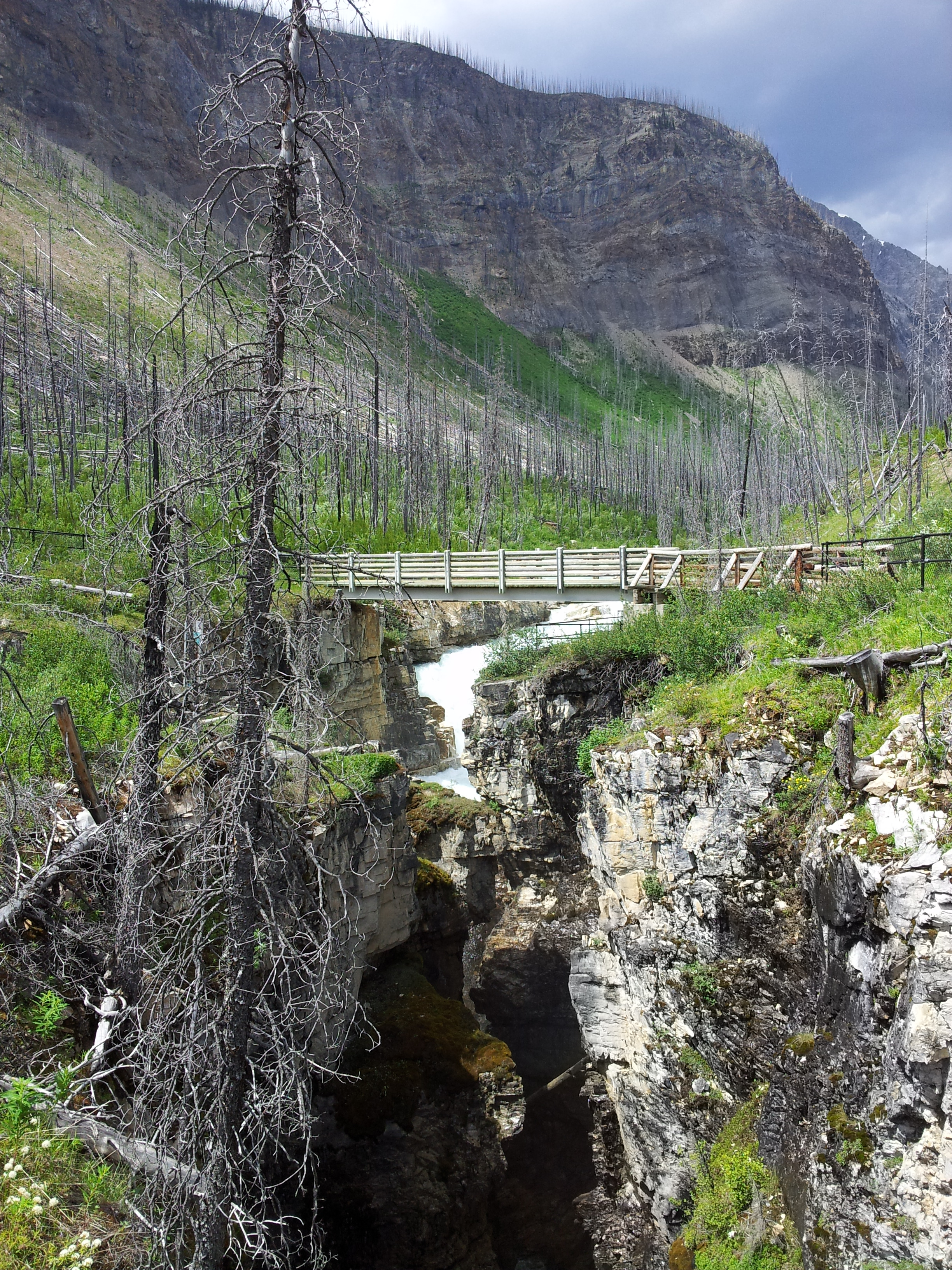 Looking up at Entrance to Marble Canyon